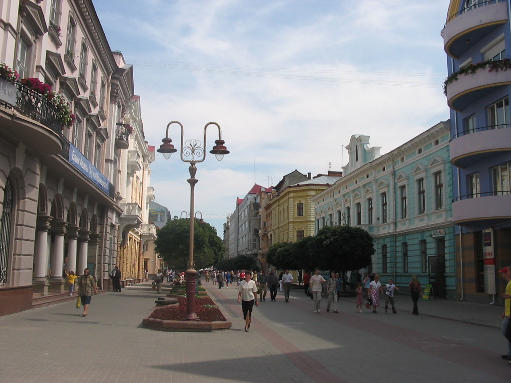 The main street in Ivano-Frankivsk city, western Ukraine